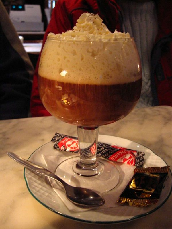 An Irish coffee